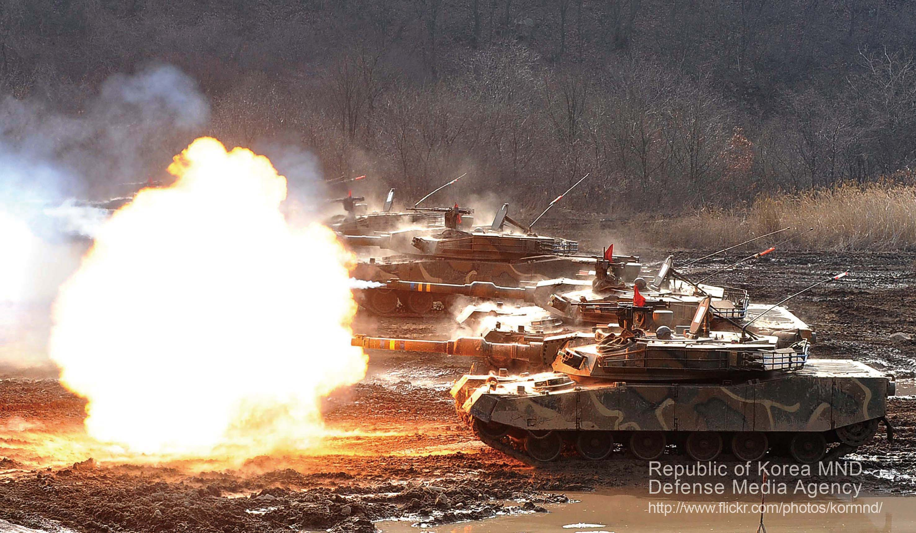 2010 국방화보 Rep. of Korea, Defense Photo Magazine 육군수도기계화보병사단 K1A1전차중대의 공격전투사격훈련. Fire exercise of K1A1 tank of Capital Mechanized Infantry Division of ROK Army.